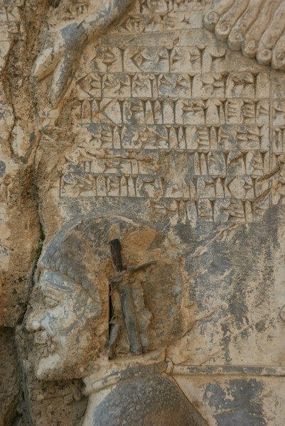 Behistun Relief Nidintu-Bêl